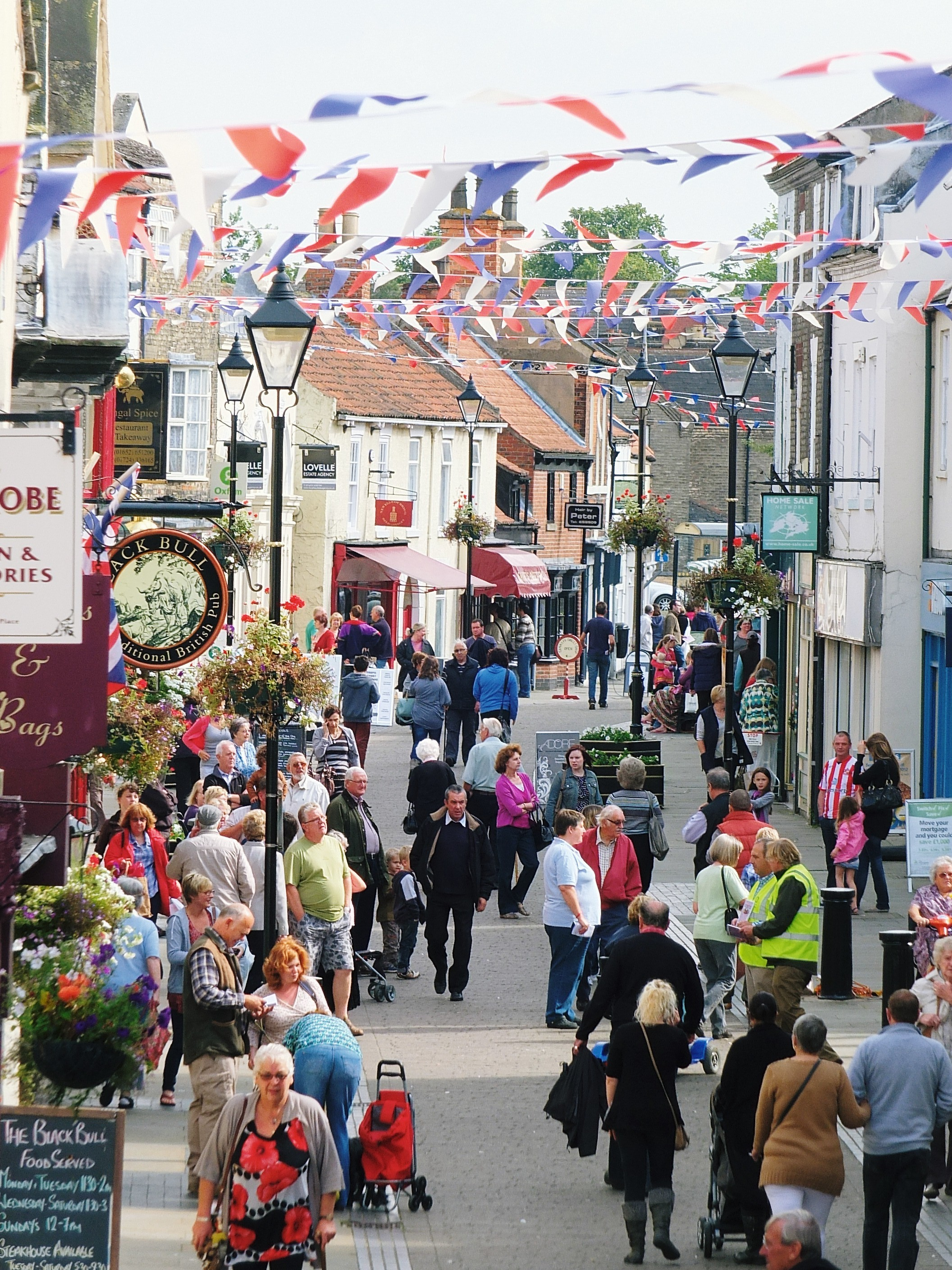 Crowds in Wrawby Street, Brigg, in late August 2012.